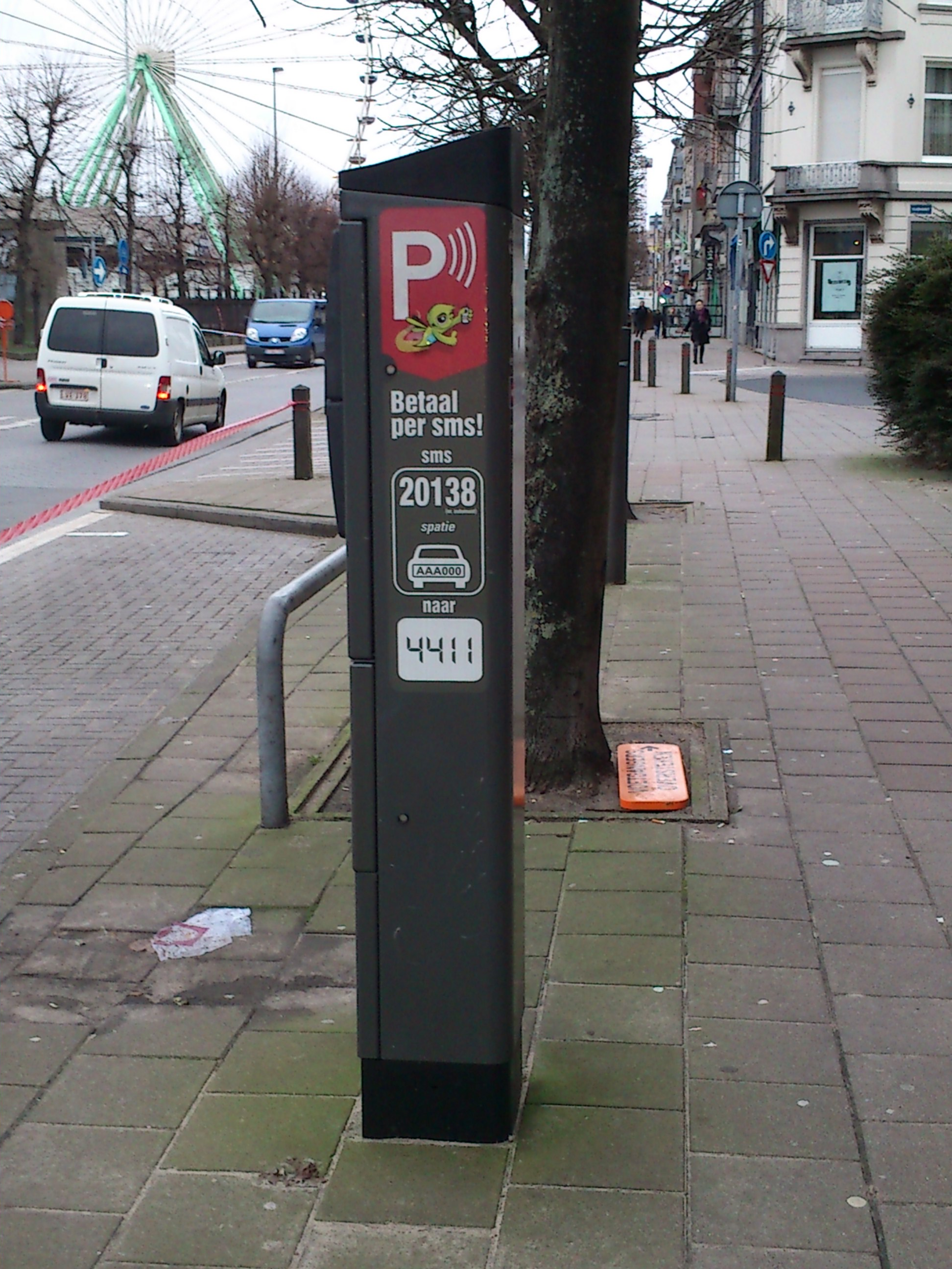 A parking meter in Antwerp, Belgium with an add for sms-parking.